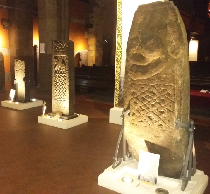 Upright cross-slabs and Jordanhill cross at Govan Old